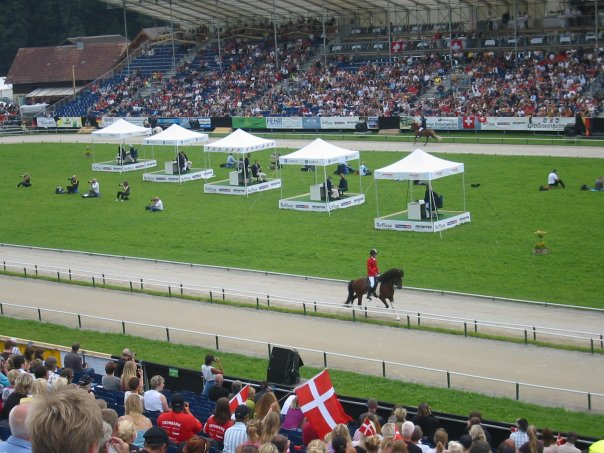 VM i Schweiz 2009